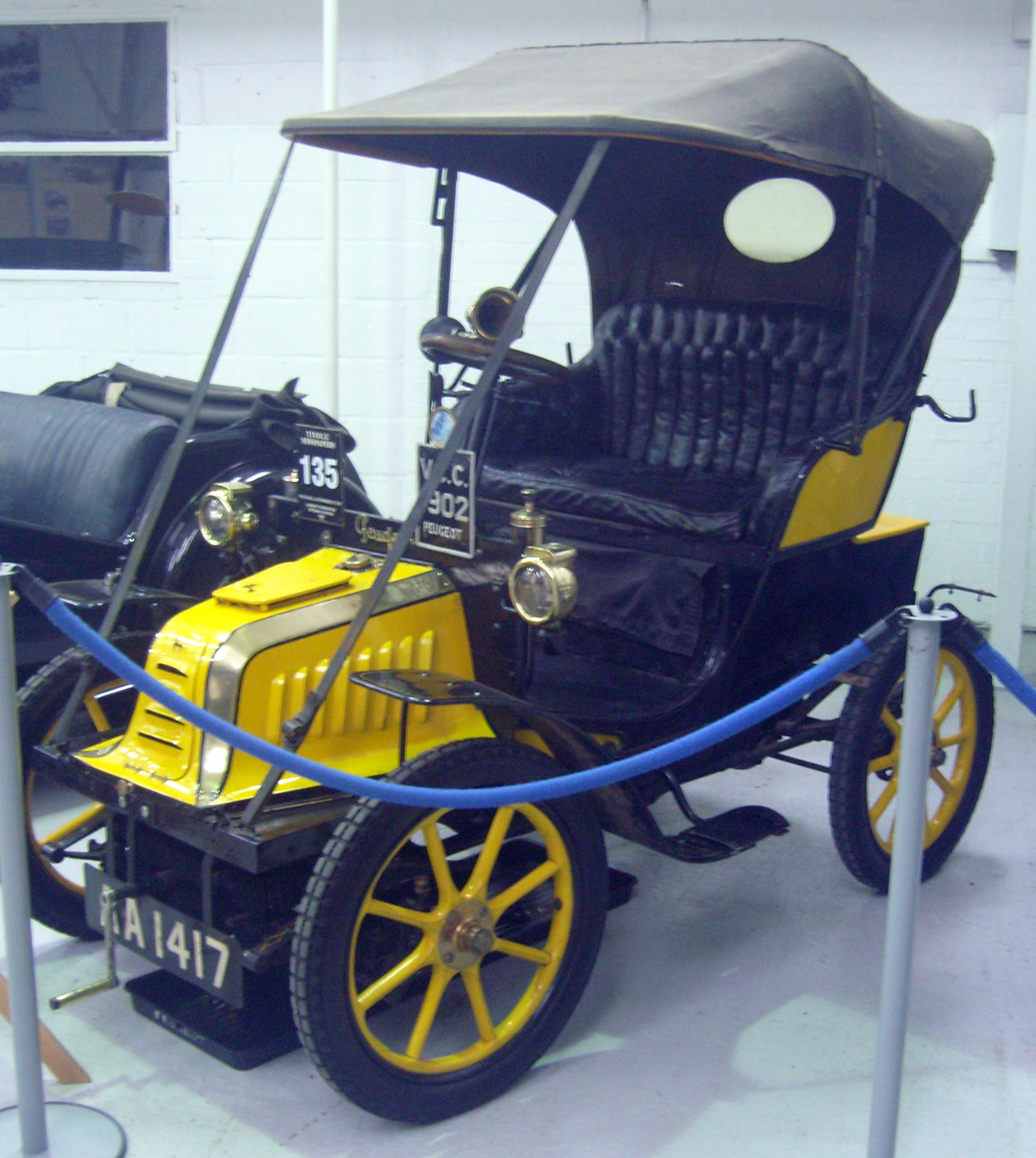 Photo ref; SNC16608 (Edited)